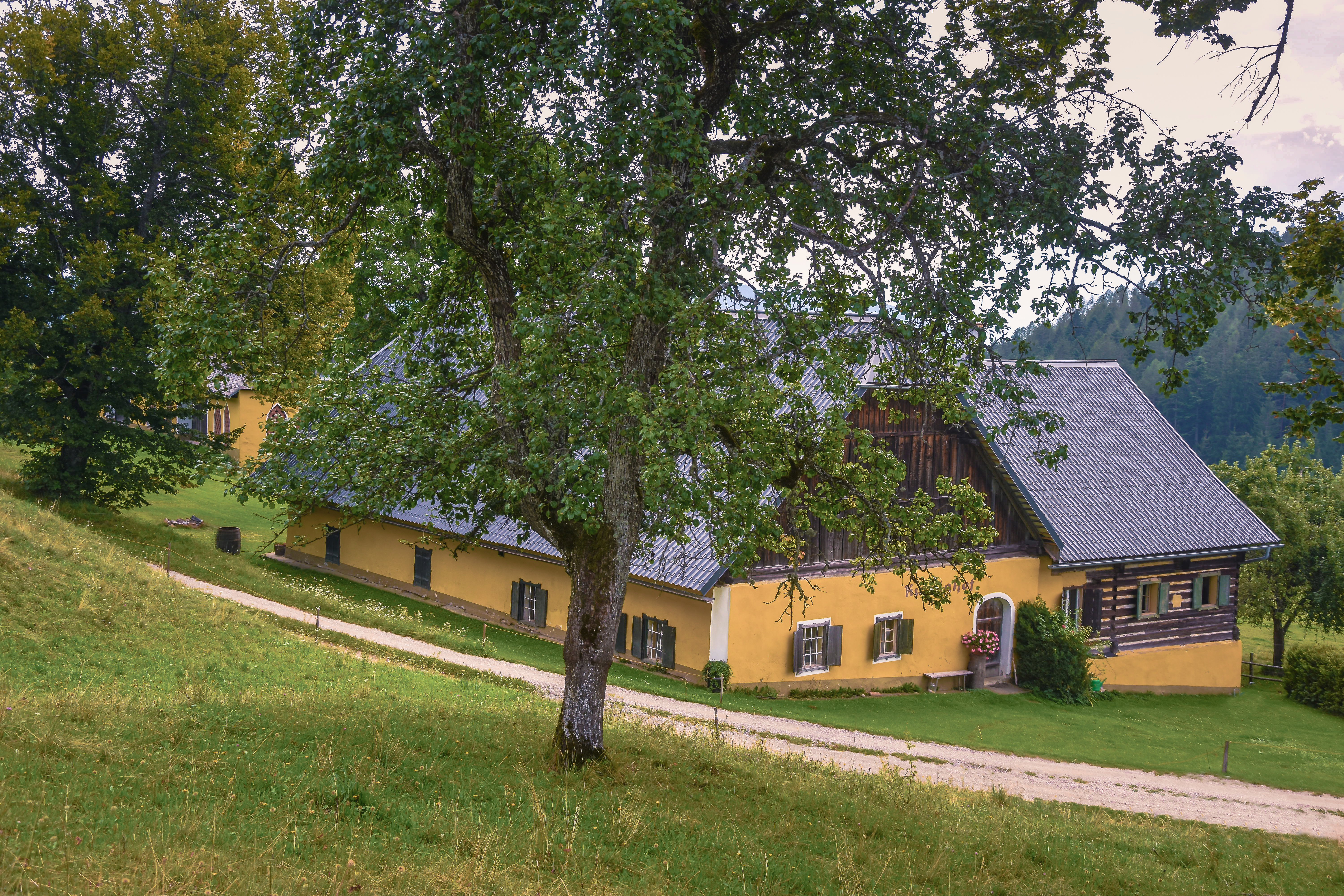 Gut Kulnighof seen from the top